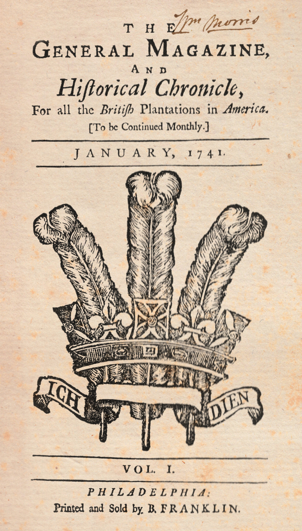 "The General Magazine and Historical Chronicle for all the British Plantations in America", Vol. 1, January, 1741 Philadelphia, Printed and Sold by B. Franklin